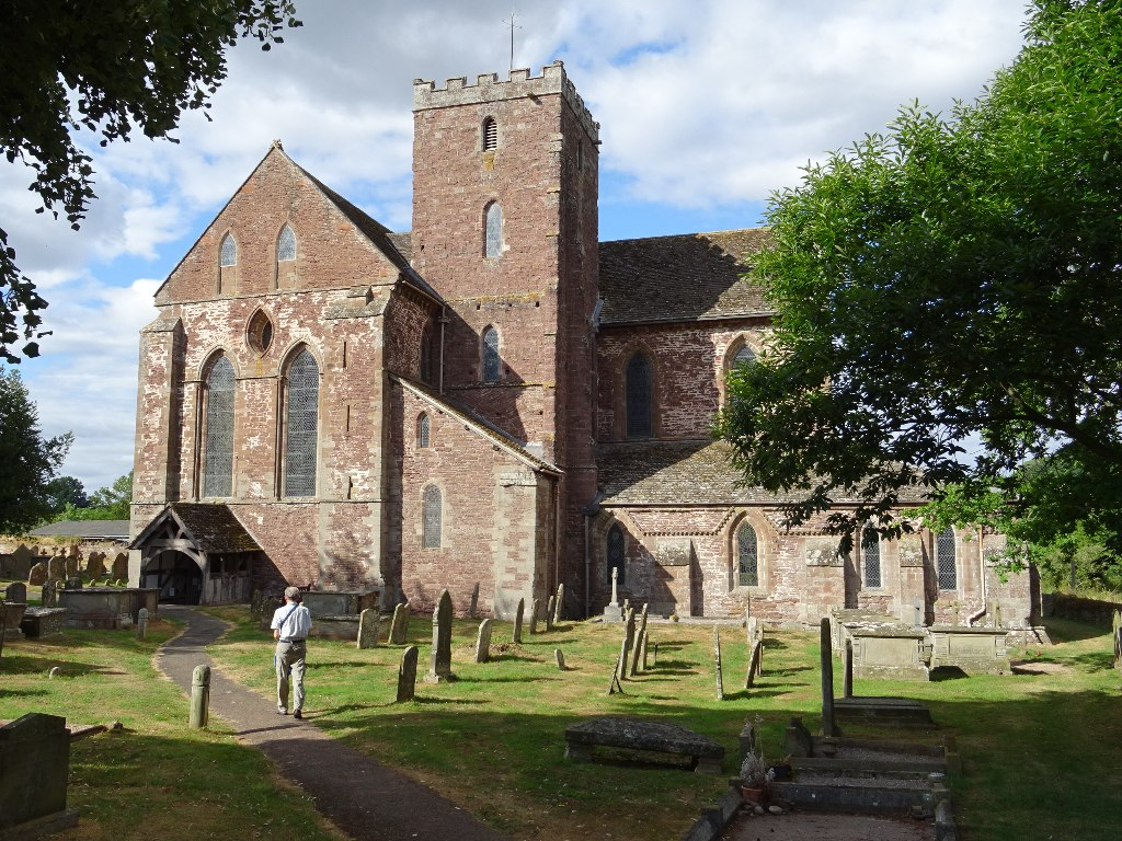 Abbey Dore.Abbey Dore was founded in 1147 and dissolved in 1536, here it is viewed from the south west. This former abbey now serves the community as a parish church. The abbey is Grade I listed.